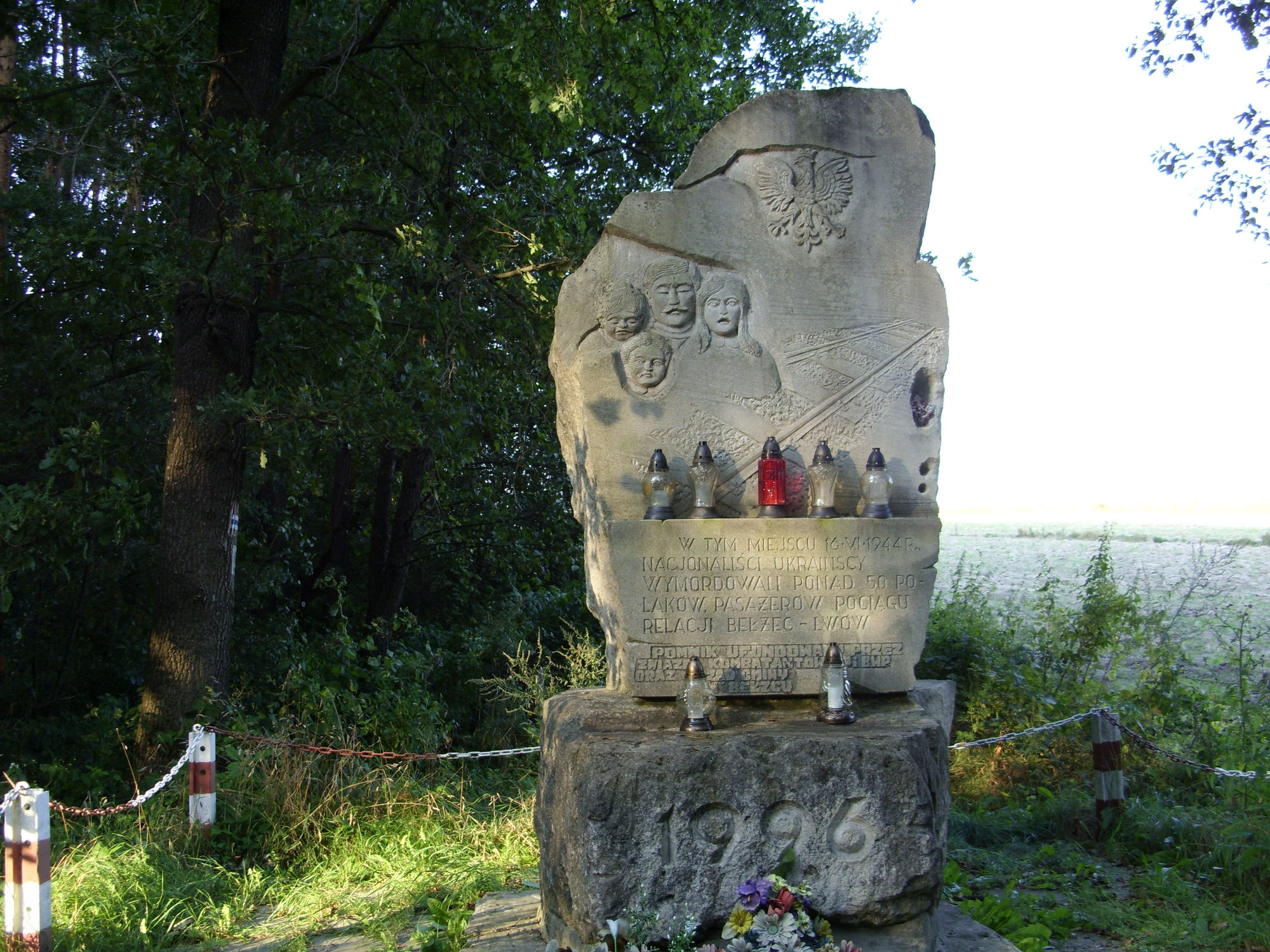 Belzec. Monument to Poles, Victims of the Murder of Passengers of the Bełżec-Lwów train, murdered by Ukrainian nationalists from the Ukrainian Insurgent Army (UPA), 16.06.1944, during the Second World War. Inscription: In this place, on June 16, 1944, Ukrainian nationalists murdered over 50 Poles, passengers of the Bełżec-Lwów train. Monument funded by the Polish Society of War Veterans and Former Political Prisoners and the Commune Office in Bełżec.